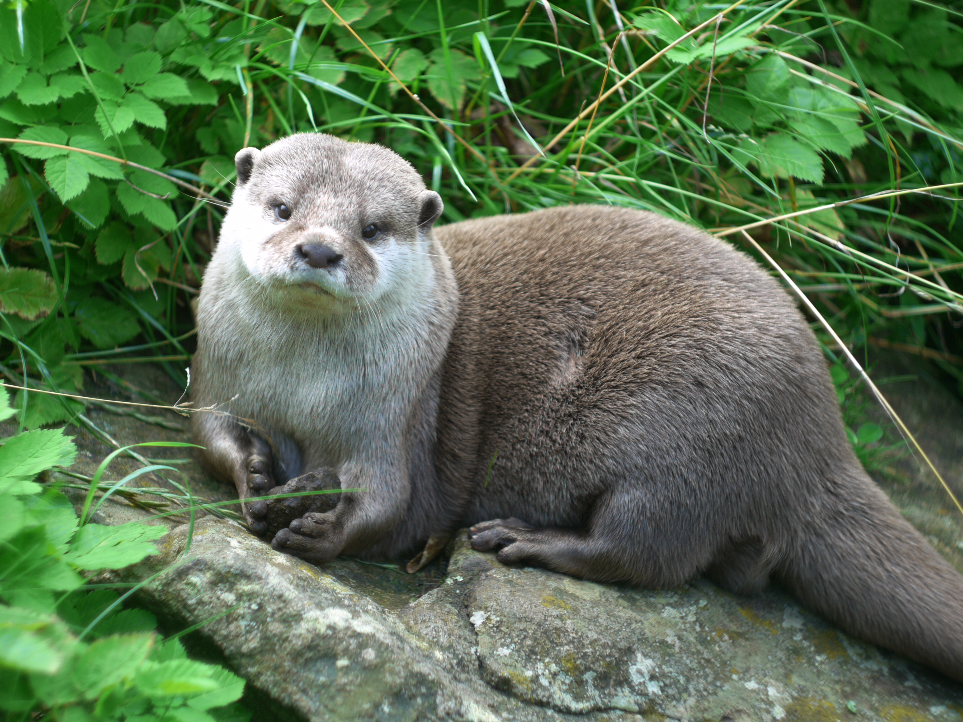 Oriental Small-clawed Otter (Aonyx cinerea), also known as Asian Small-clawed Otter, also known as Asian Small-clawed Otter at Edinburgh Zoo, Scotland.